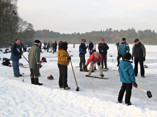 Outdoor curling on Stormont Loch Looking across the ice where several games are in progress. Unlike an indoor game at a curling rink, the curlers each bring their own stones (some used by successive generations of the same family) and many use household brooms rather than specialist curling brooms. Stones are delivered from a crampit rather than the hack used indoors.